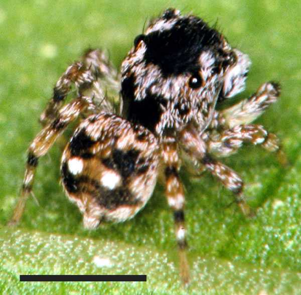 Male Naphrys bufoides jumping spider from Welaka, Putnam County, Florida, USA